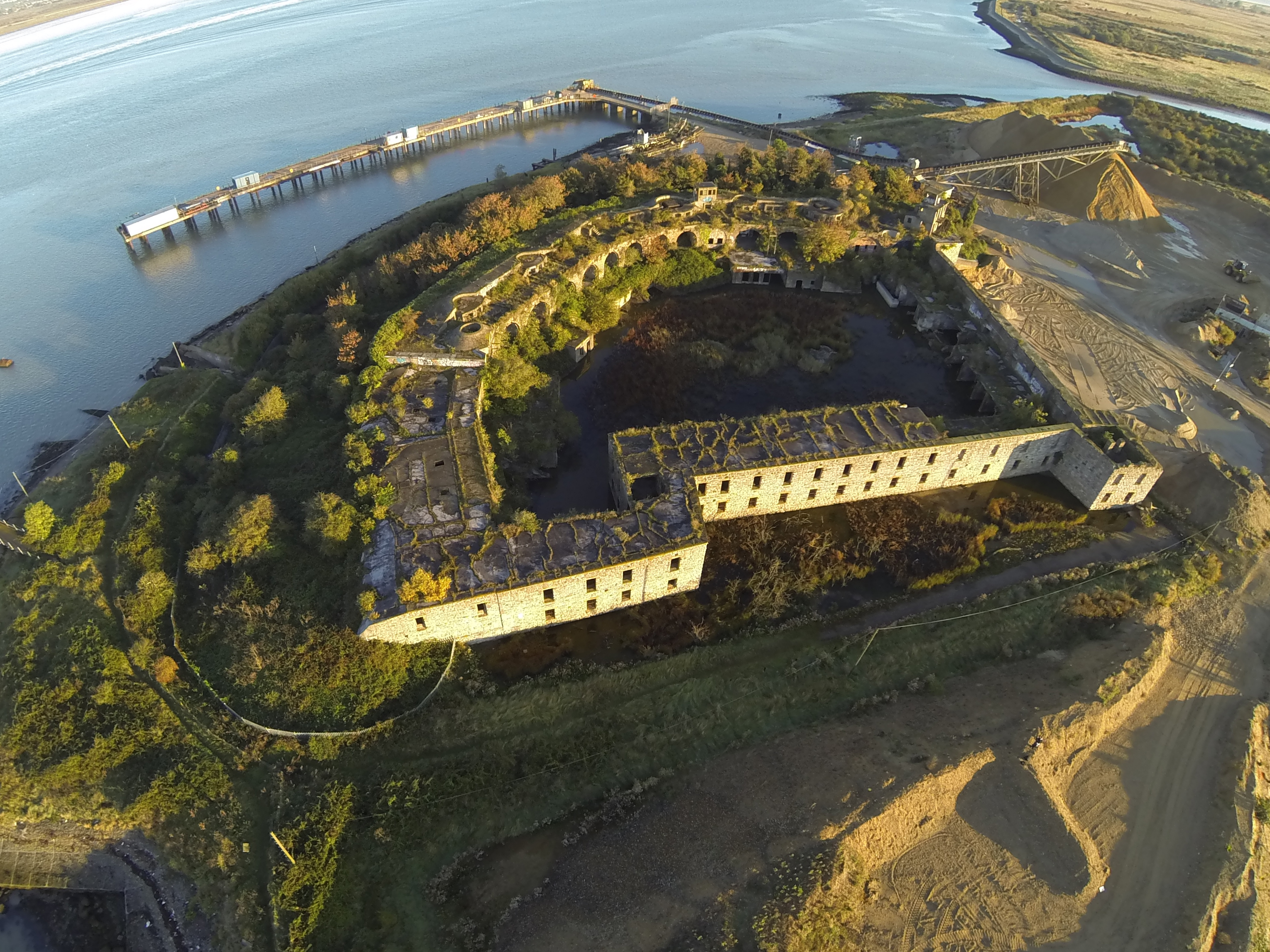 Cliffe Fort aerial photo from a quadcopter, taken at sunrise.